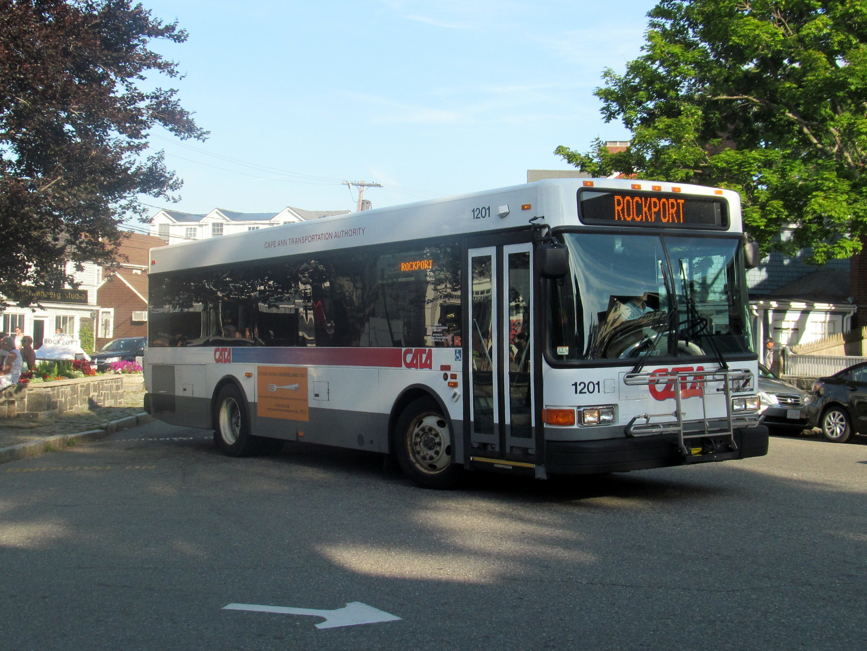 A Cape Ann Transportation Authority bus at Dock Square in Rockport in July 2016